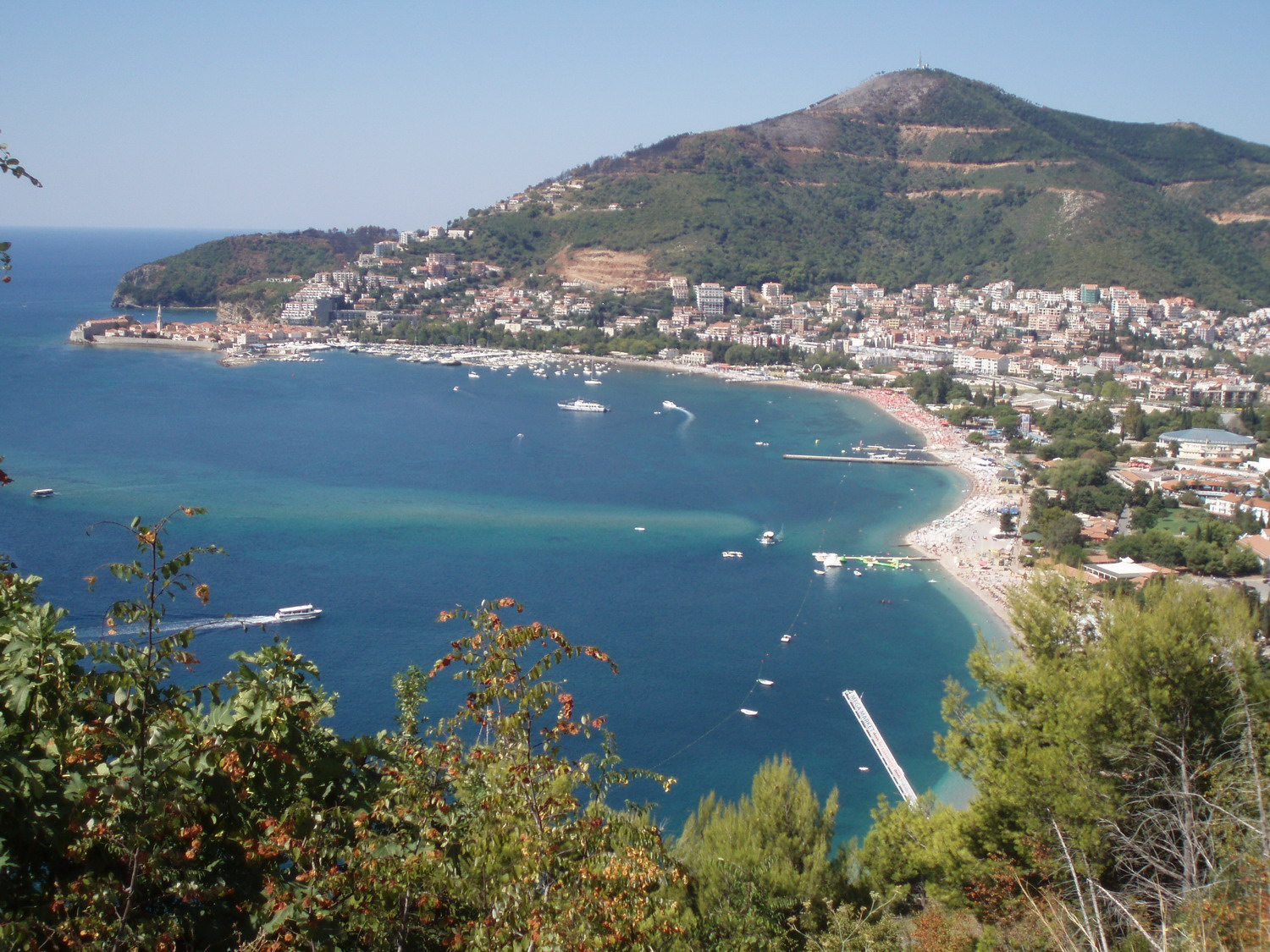 Budva, at the Adriatic Sea